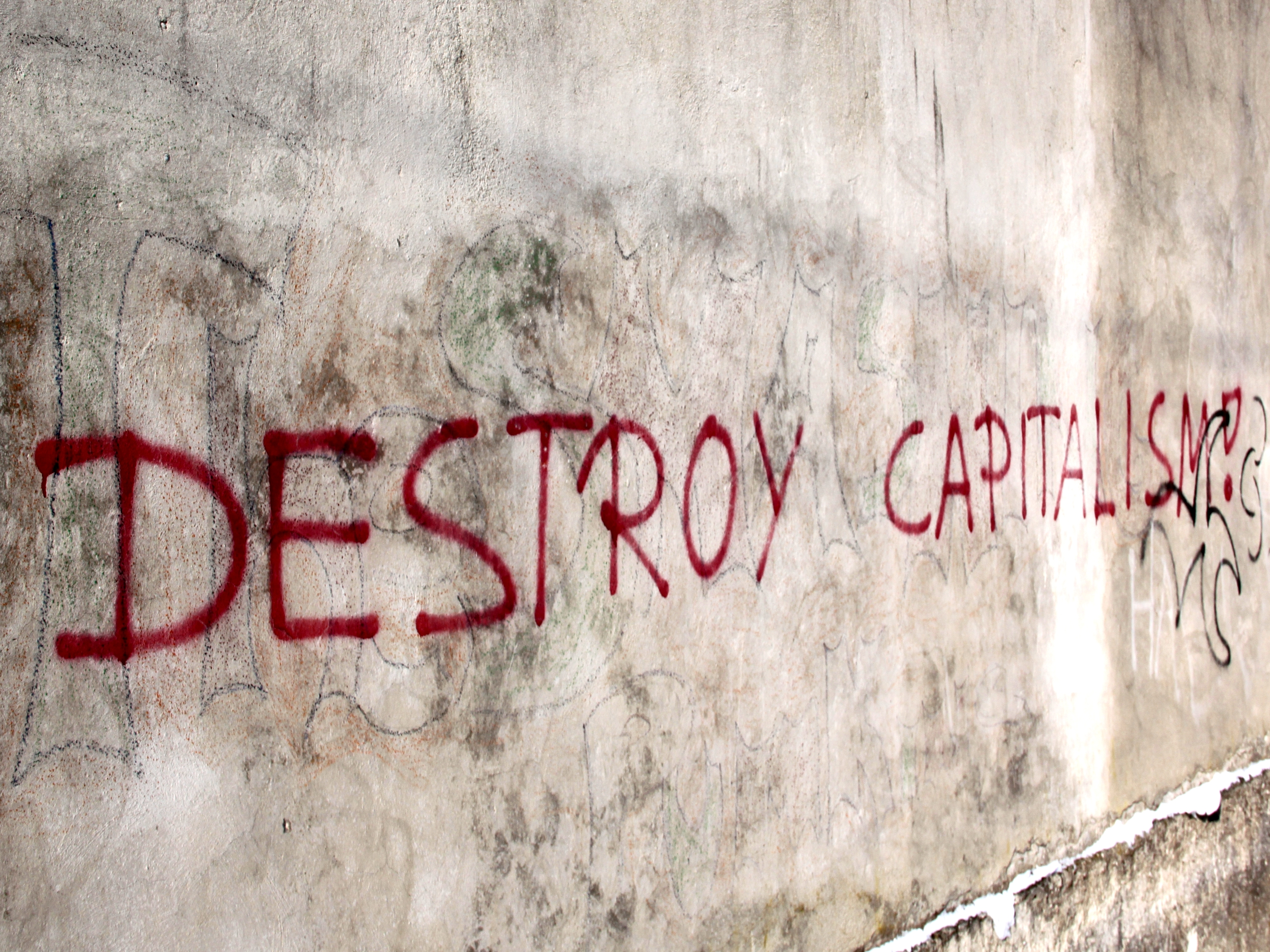 "Destroy Capitalism!" graffito on a factory wall in Steyr (Oberer Schiffweg)